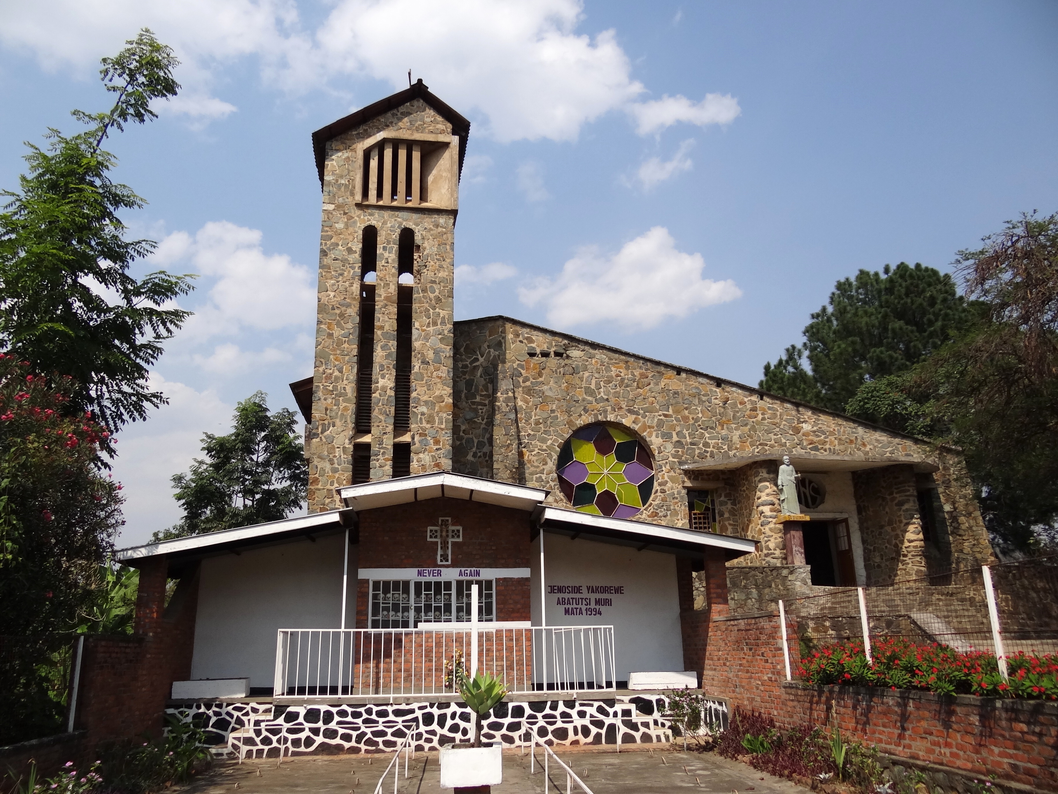 Exterior of Genocide Memorial Church with Never Again Display in Foreground - Karongi-Kibuye - Western Rwanda